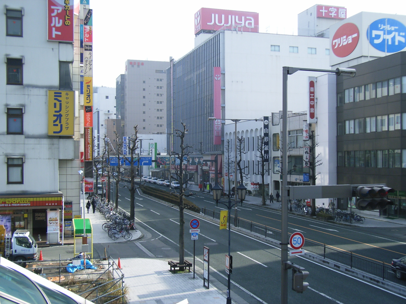 Yamagata Prefectural Road 16, Yamagata Station Line (Yamagara Teishajō Sen). Yamagata, Yamagara prefecture, Japan.